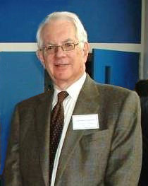 Sheldon Glashow at Harvard